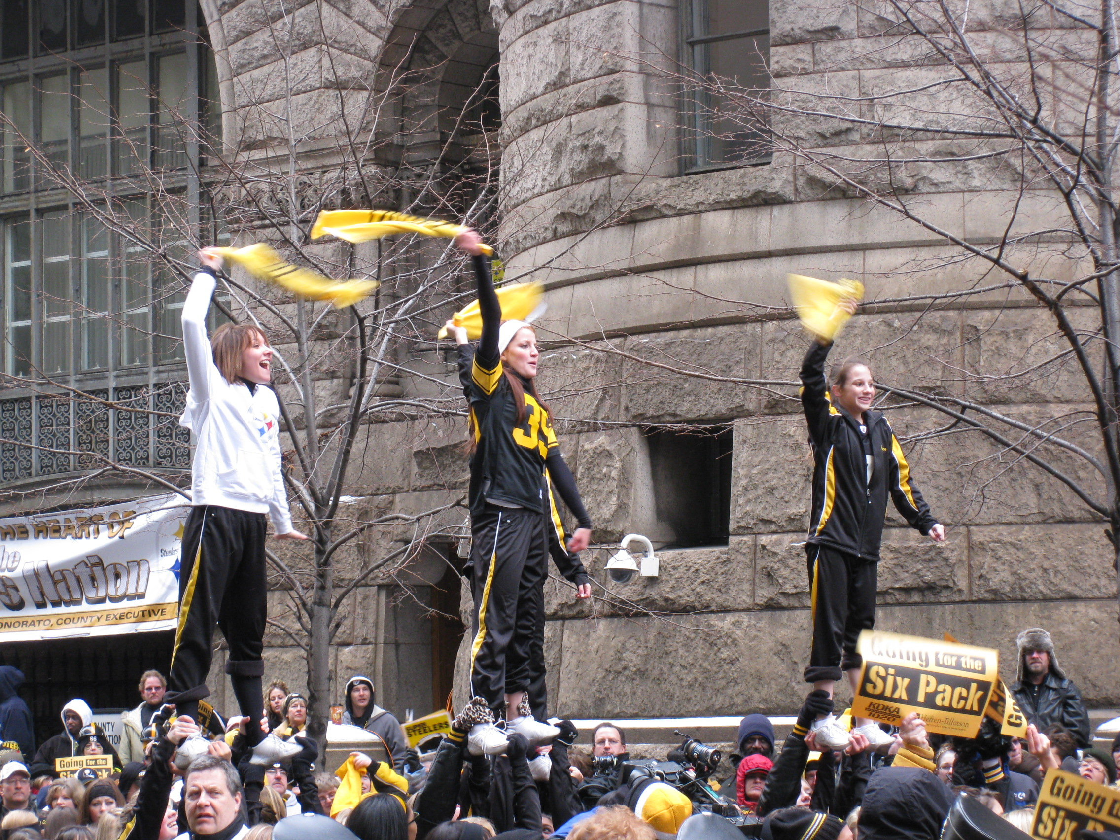 At a rally for the Pittsburgh Steelers on Forbes Avenue between Pittsburgh City-County Building and Allegheny County Courthouse on the Thursday before meeting the Arizona Cardinals in Super Bowl XLIII. They are waving Terrible Towel.